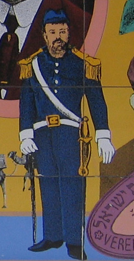 Wall Painting in Suzan Dalal Center, Tel Aviv-Yaffo by David Tartakover (1988-9). Detail: Chaim Amzalak.